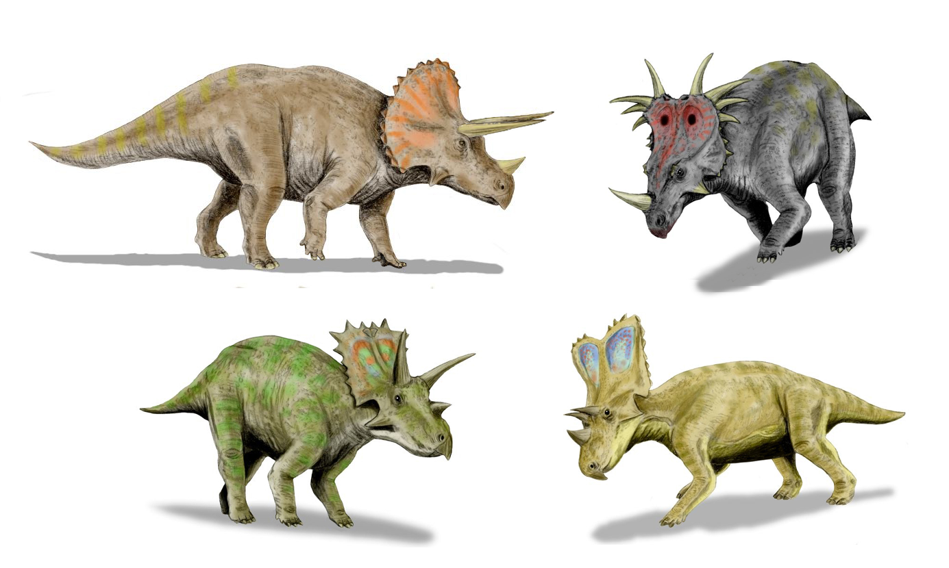 Ceratopsidae Upper left: Triceratops Upper right: Styracosaurus Lower left: Anchiceratops Lower right: Chasmosaurus